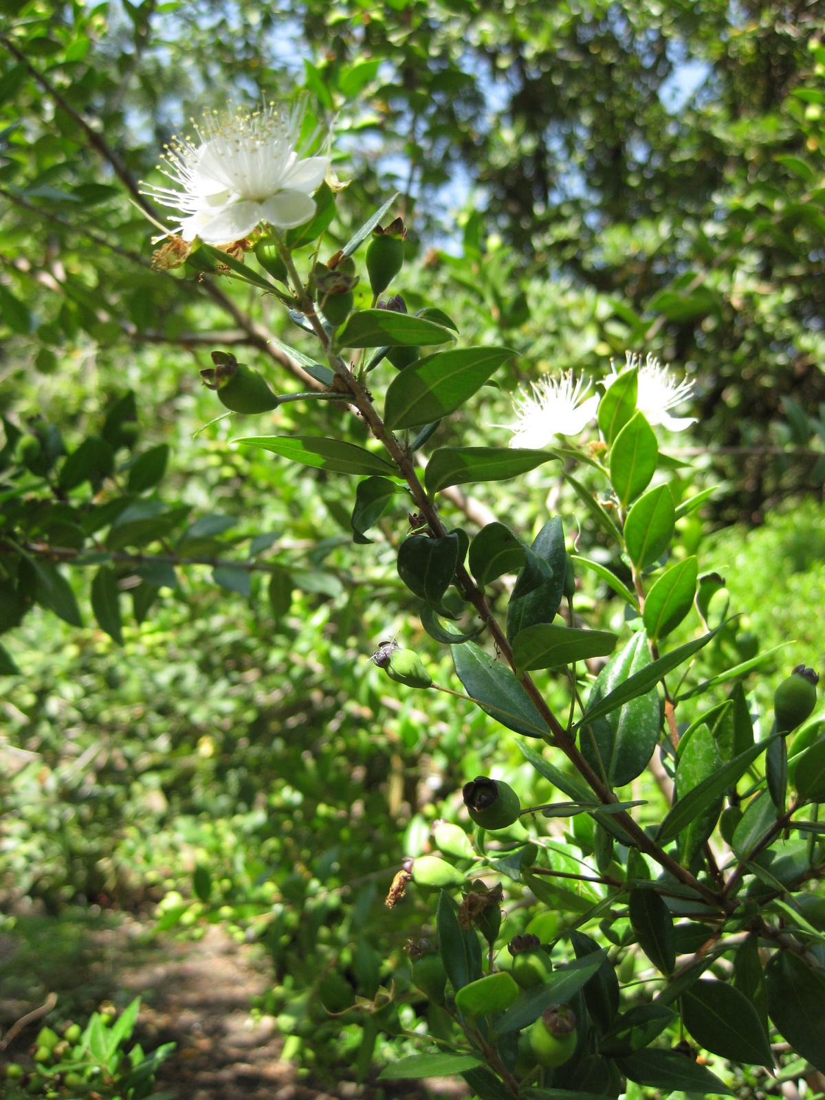 Photographed at Huntington Gardens (Los Angeles, California) in August